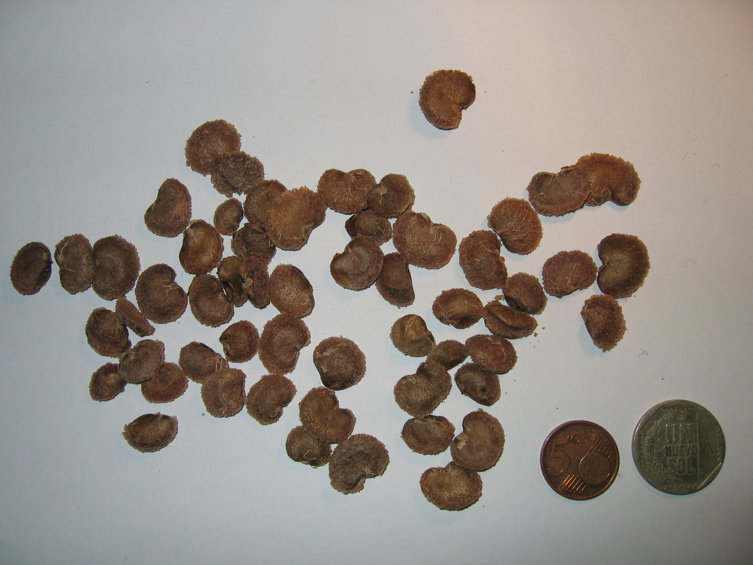 Dried Camu-Camu seeds with 5 euro-cent and 1 peruvian Sol